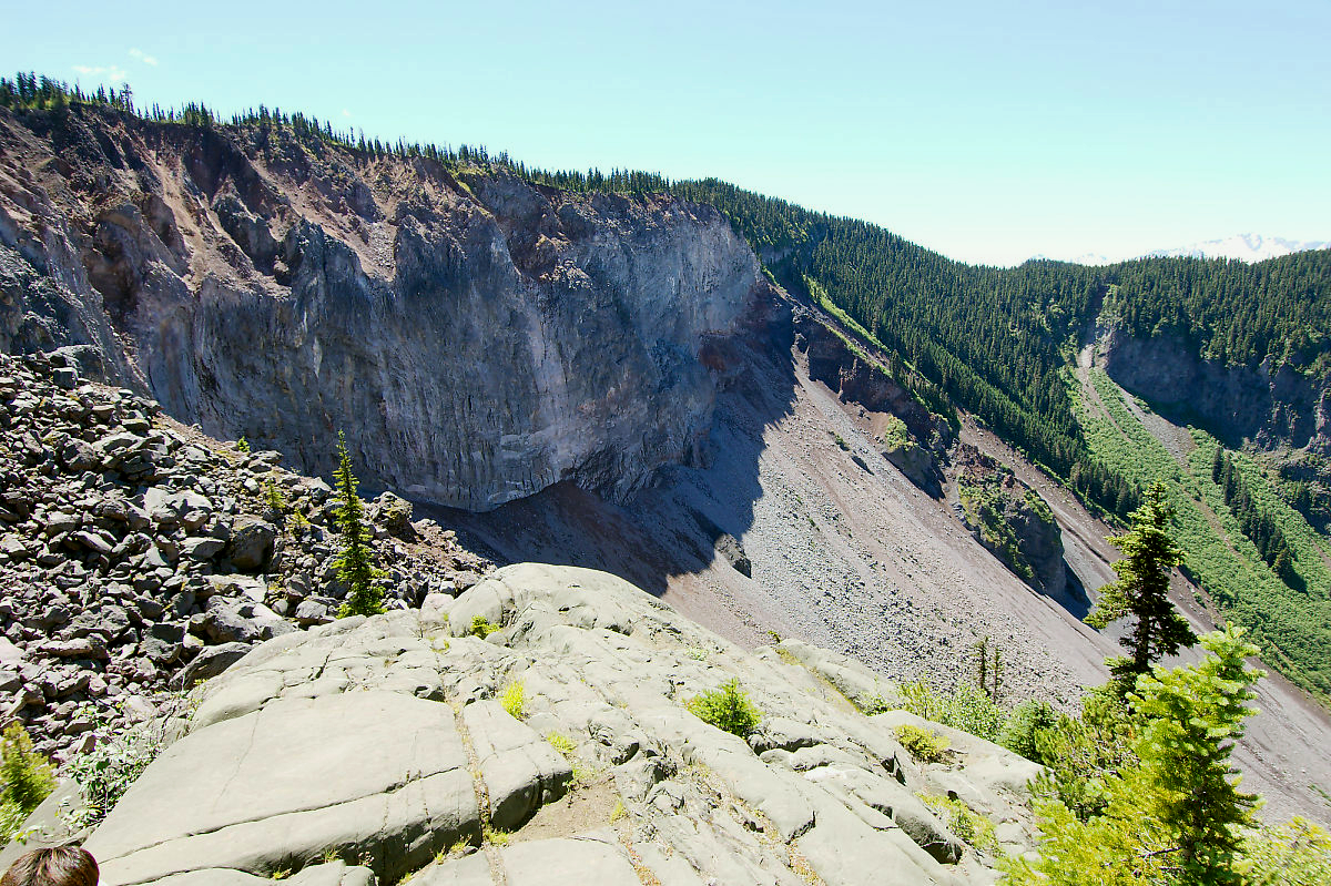 View of The Barrier, British Columbia